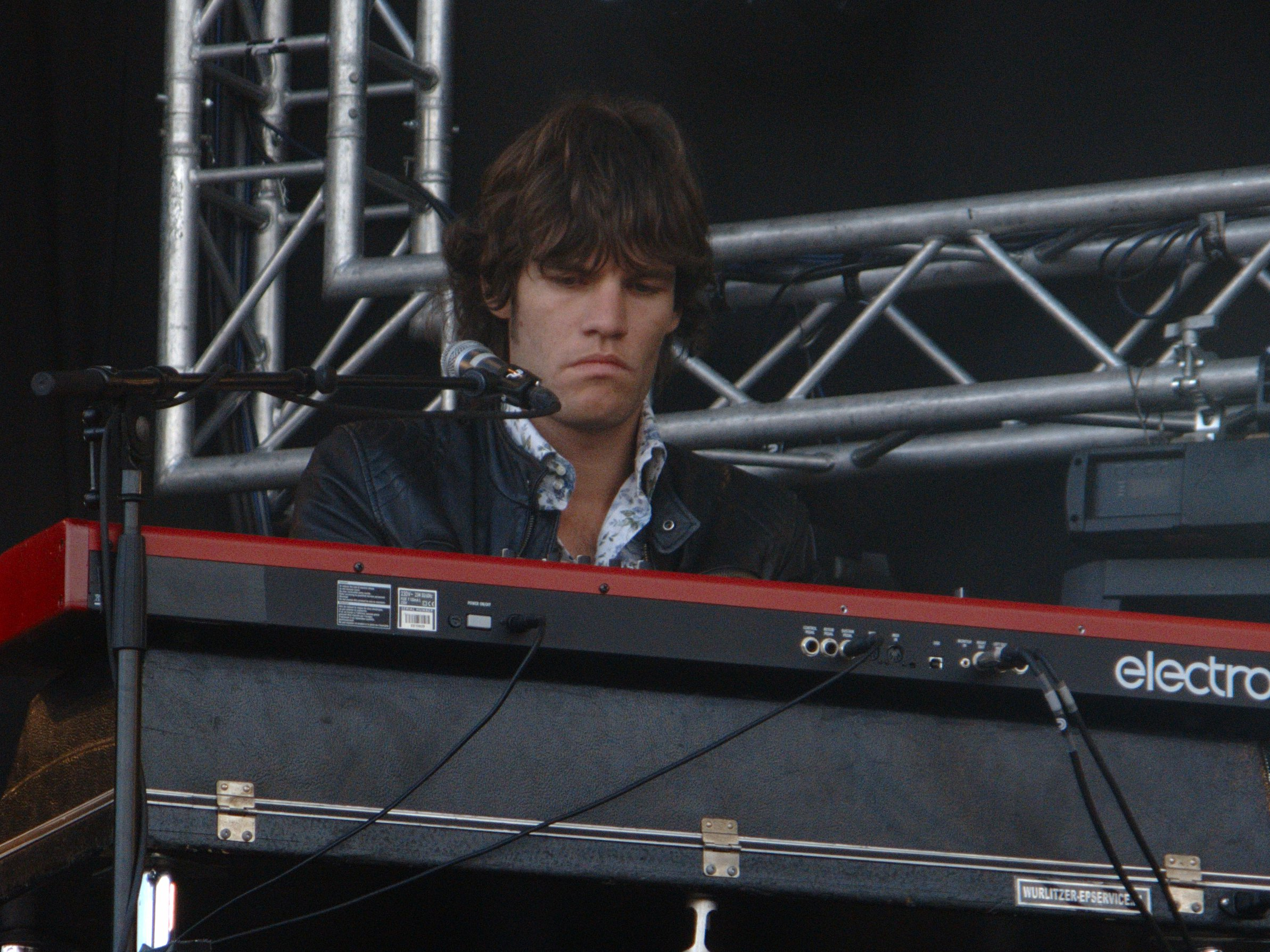 Matthijs van Duijvenbode playing keyboard in the band of Jacqueline Govaert at the Zwarte Cross 2011